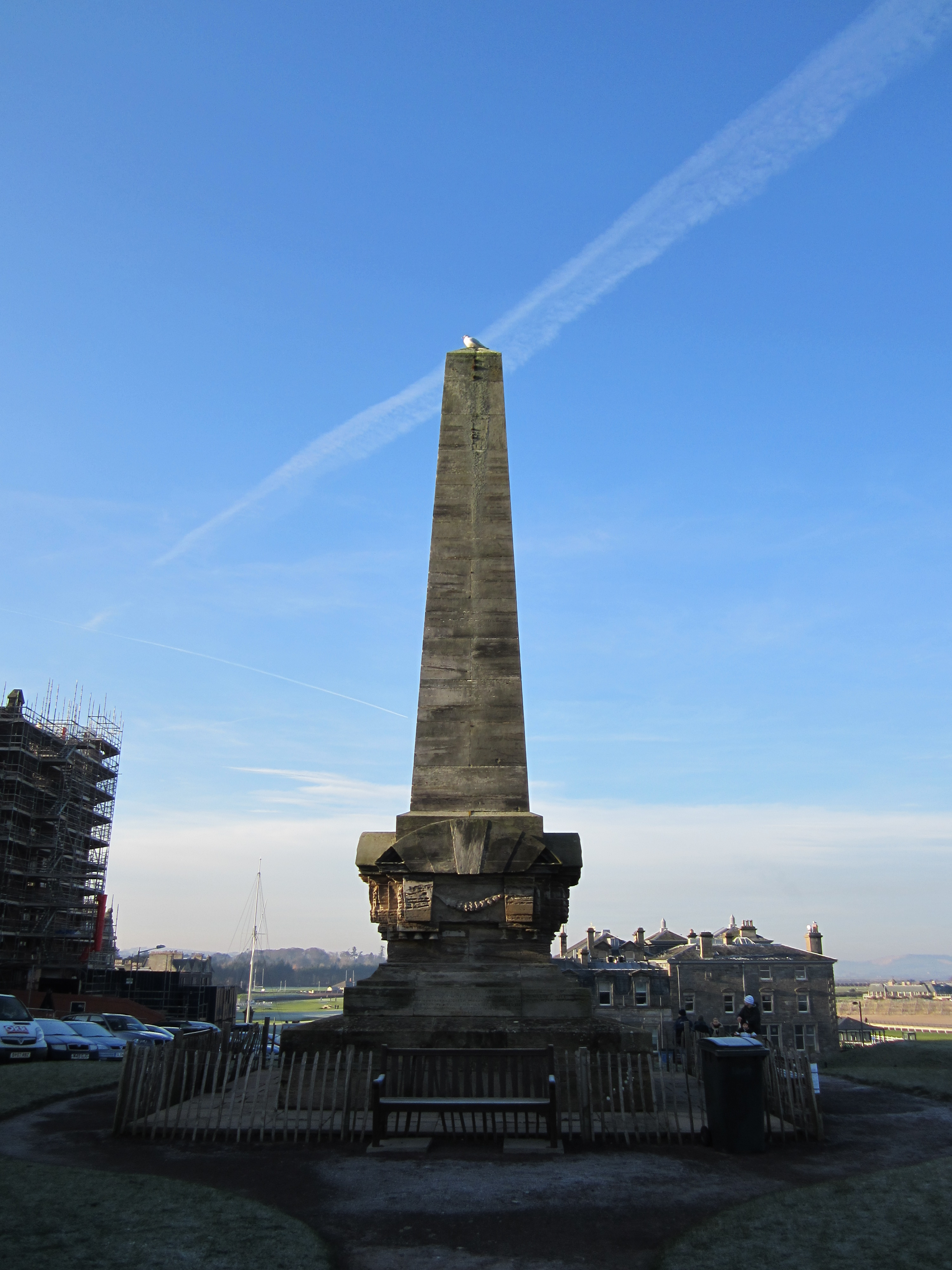 St Andrews, Gillespie Terrace, Martyr's Monument Wikidata has entry Q17802333 with data related to this item.